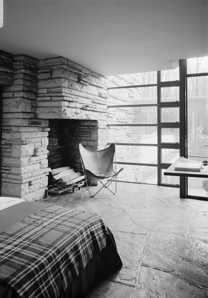 Stone Fireplace and Floor-to-Ceiling South Windows in the Dressing Room of Fallingwater